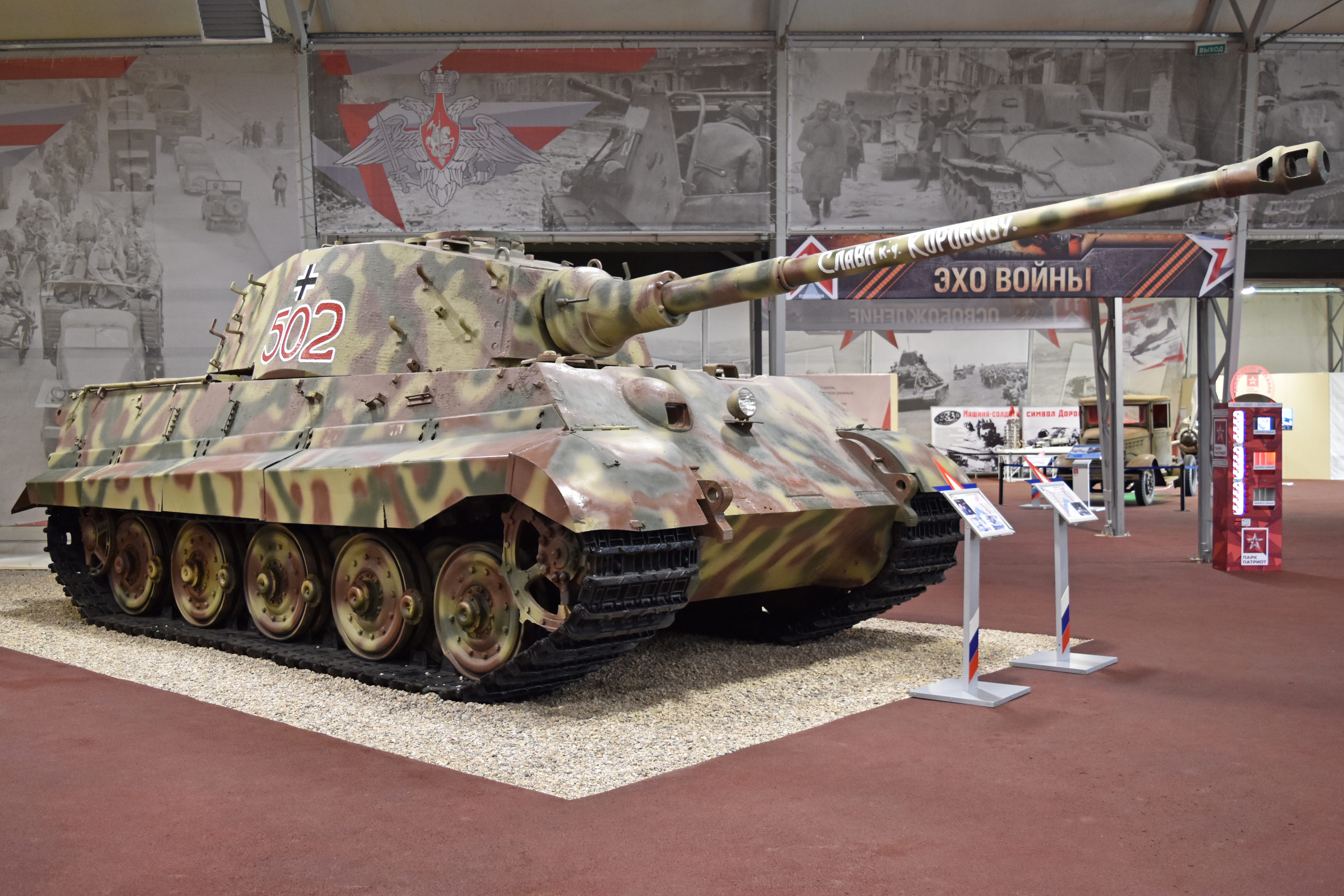 German WW2 Heavy Tank (Command variant) Offical designation:- Sd Kfz 267 Panzerbefehlswagen Tiger Ausf B. This was the command tank variant of the formidable Tiger II. Captured after the valiant action described below, it was taken to Kubinka for testing and has remained there since. Recently repainted into accurate colour scheme and markings, it is now on display in Hall 11 of the Patriot Museum Complex. Park Patriot, Kubinka, Moscow Oblast, Russia. 25th August 2017